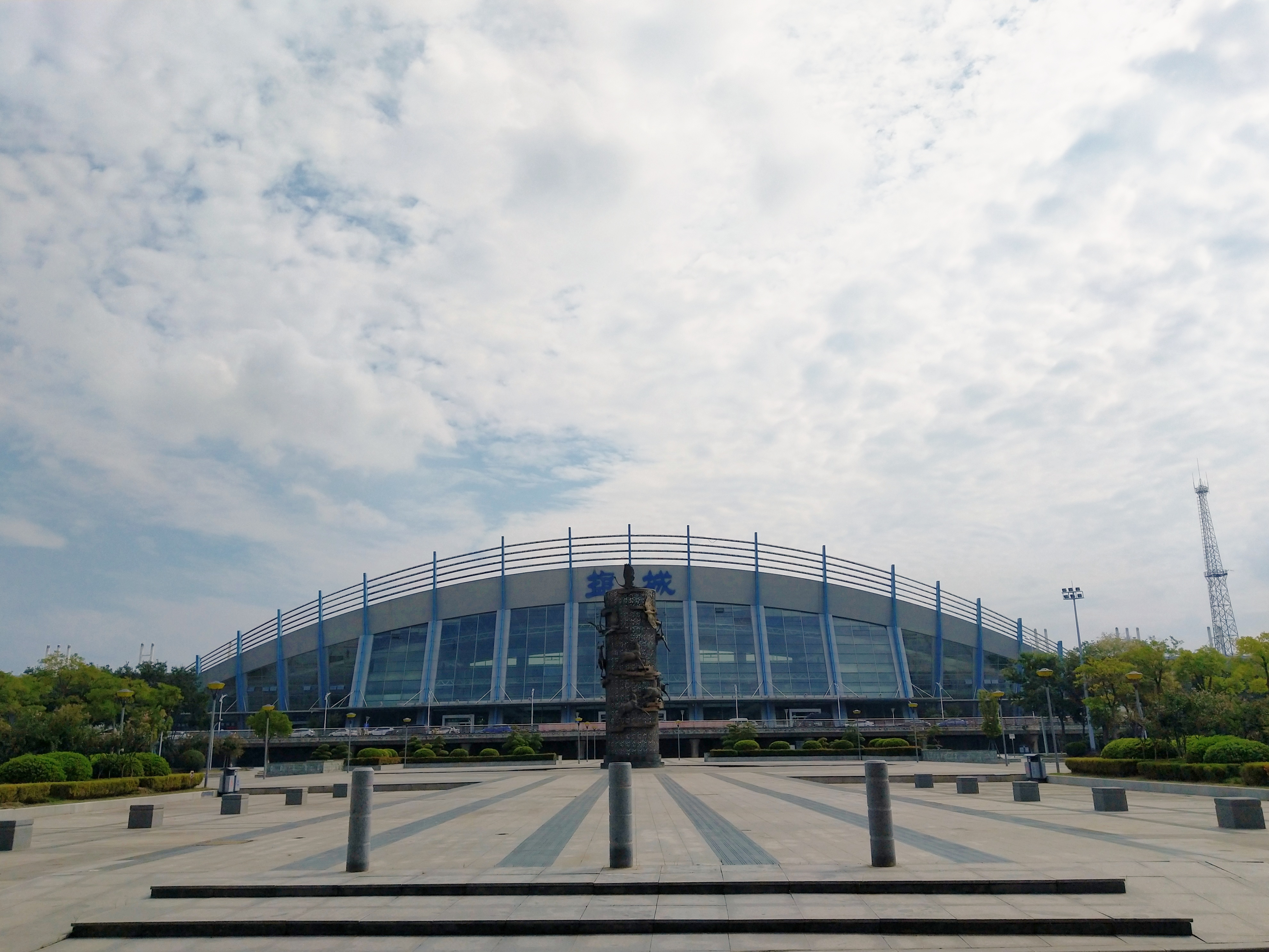 Yancheng Railway Station